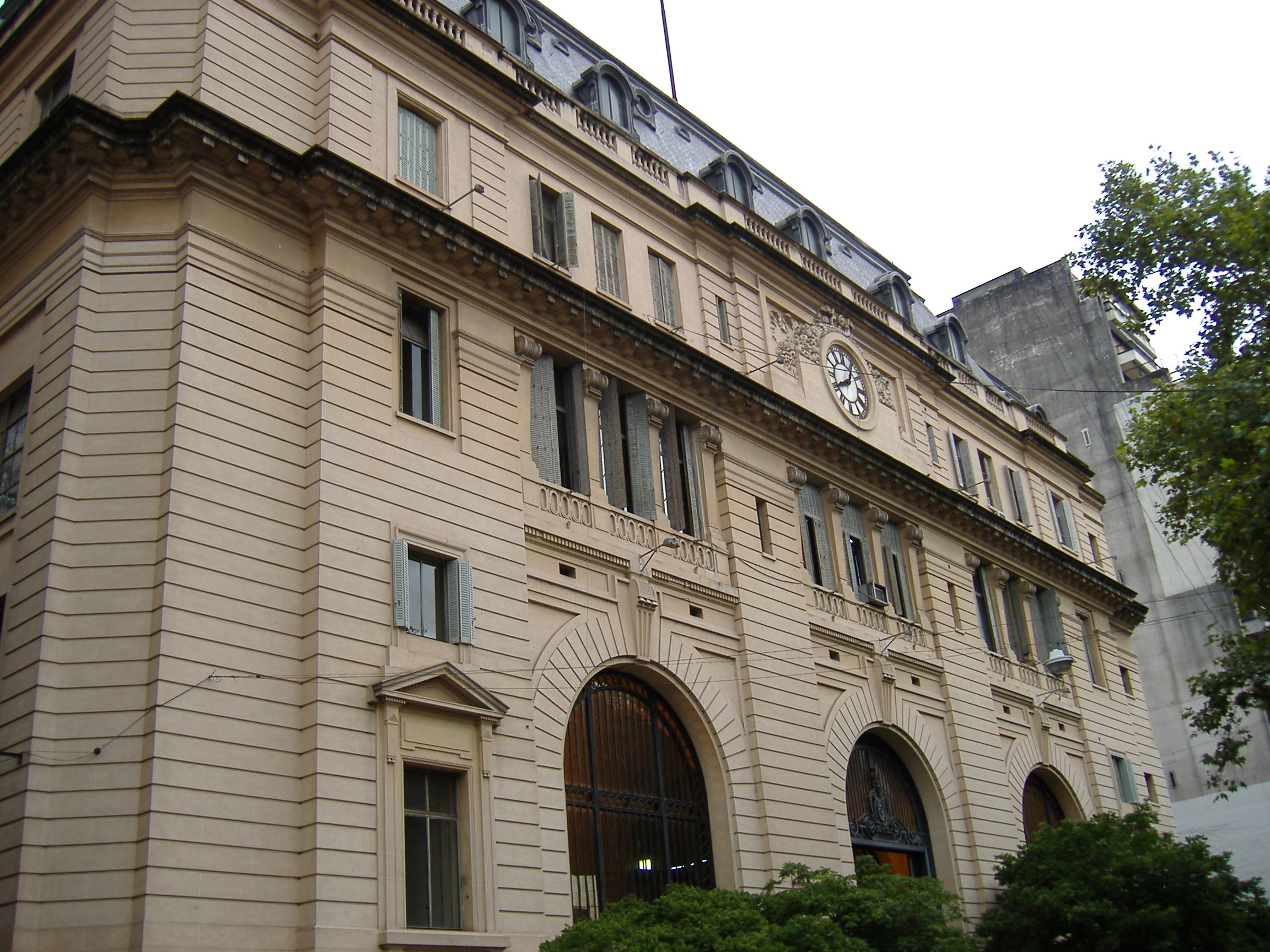 The Central Post Office building in Rosario, Argentina (on Córdoba St. between Laprida and Buenos Aires). I, Pablo D. Flores, took this picture on 28 February 2006.